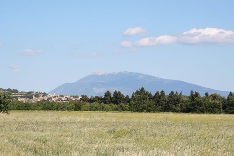 View of Visan with The Ventoux in back